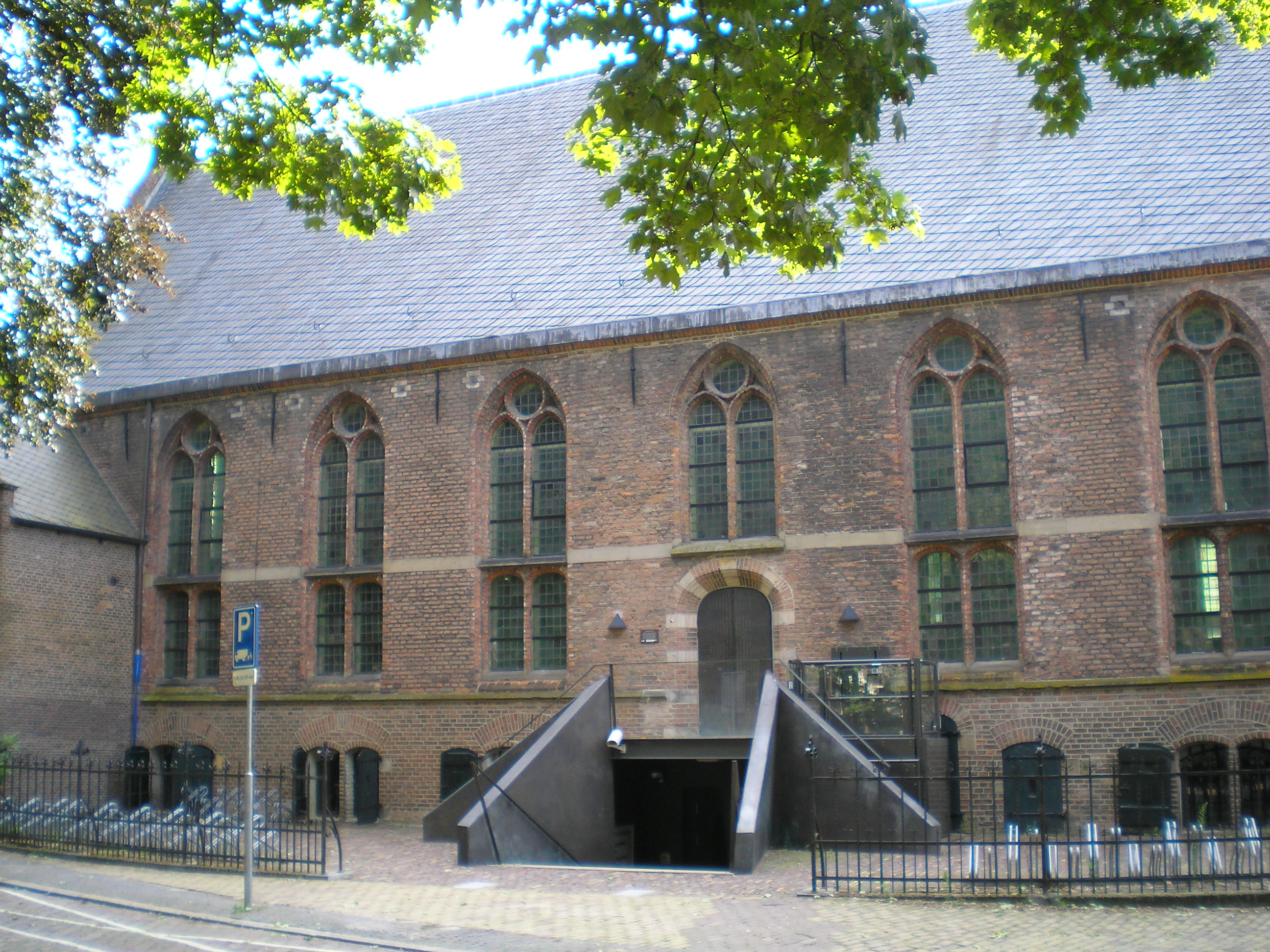 Leeuwenbergkerk on the Servaasbolwerk in Utrecht in the Netherlands